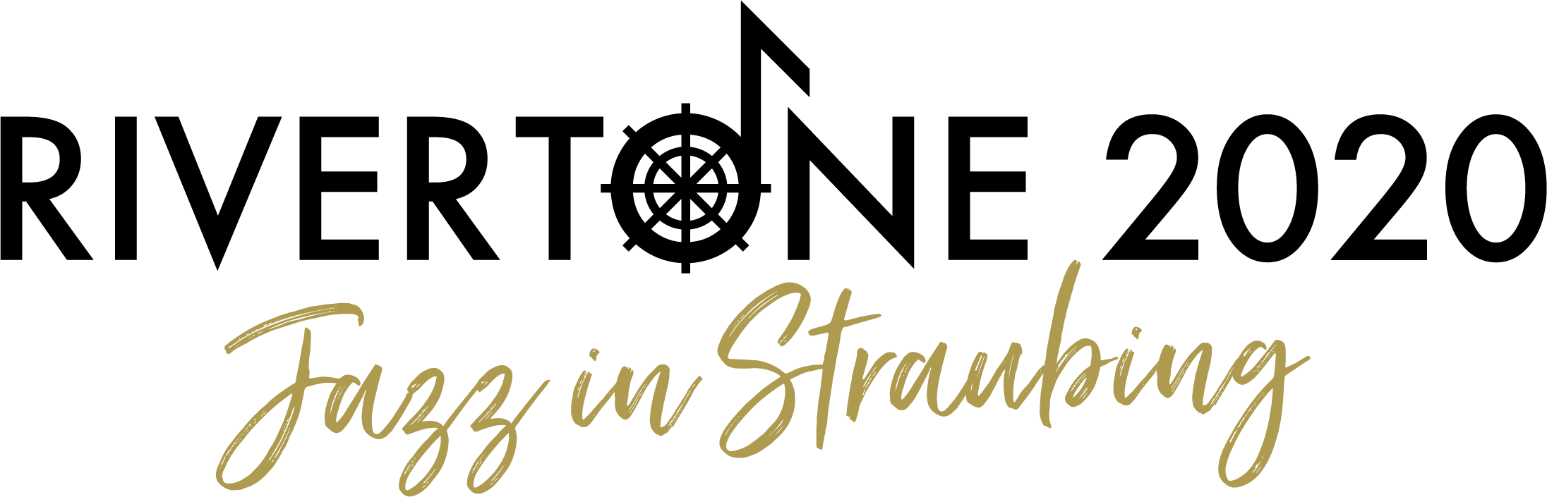 Rivertone Logo - 2020